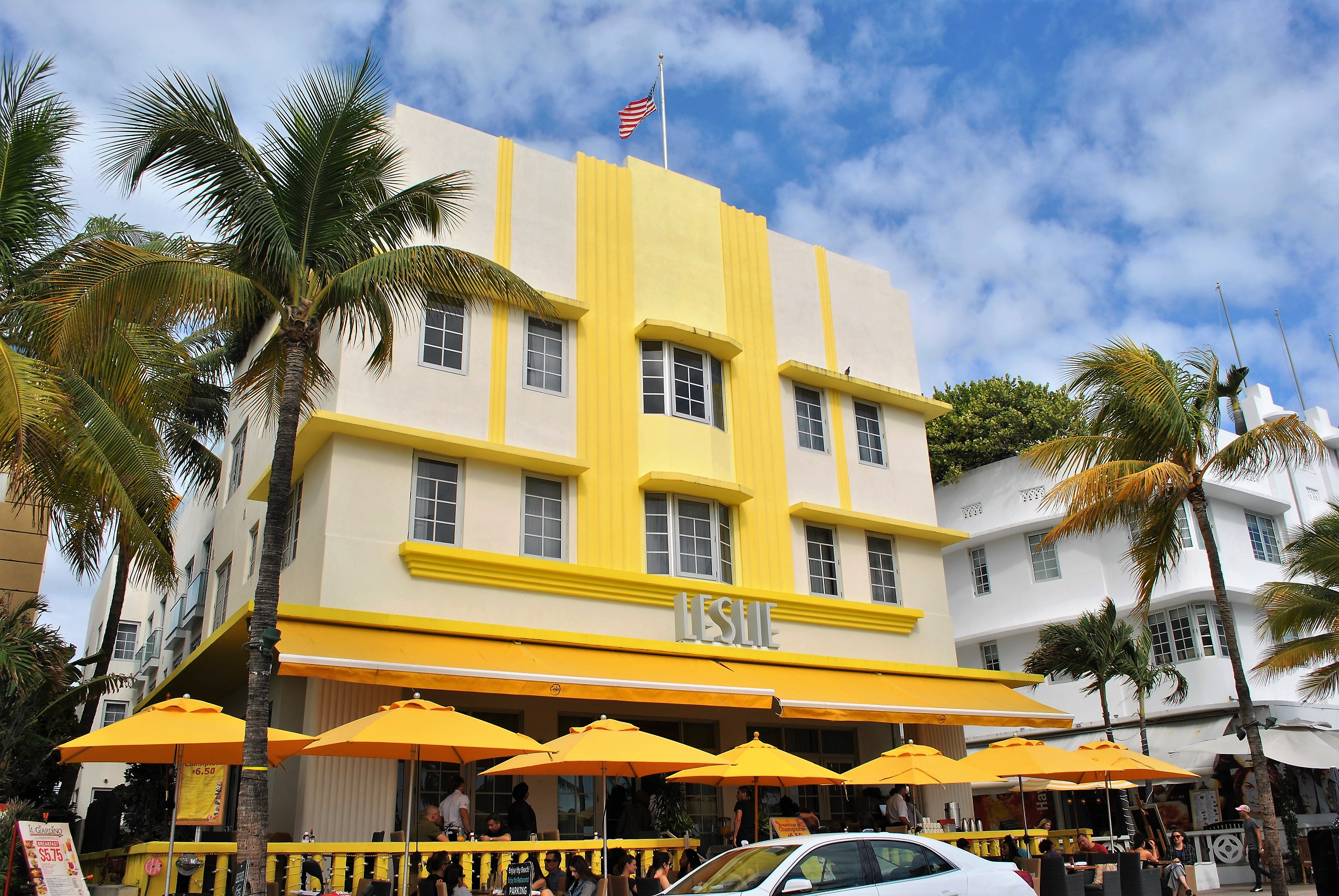 Image originally published in Queer Places: Retracing the Steps of LGBTQ people around the World Authored by Elisa Rolle